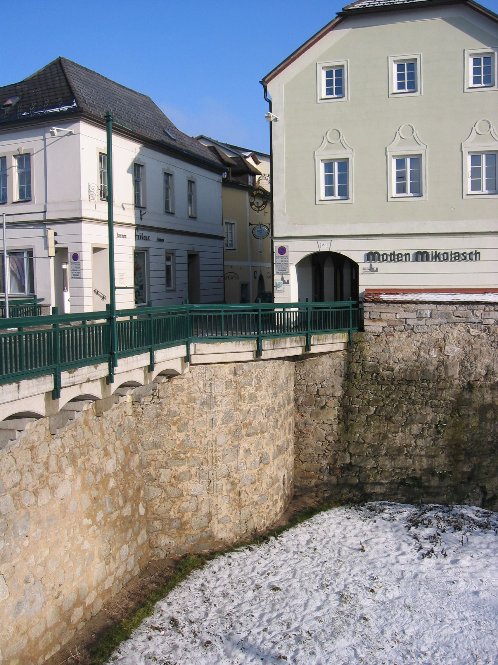 Turm im Winkel